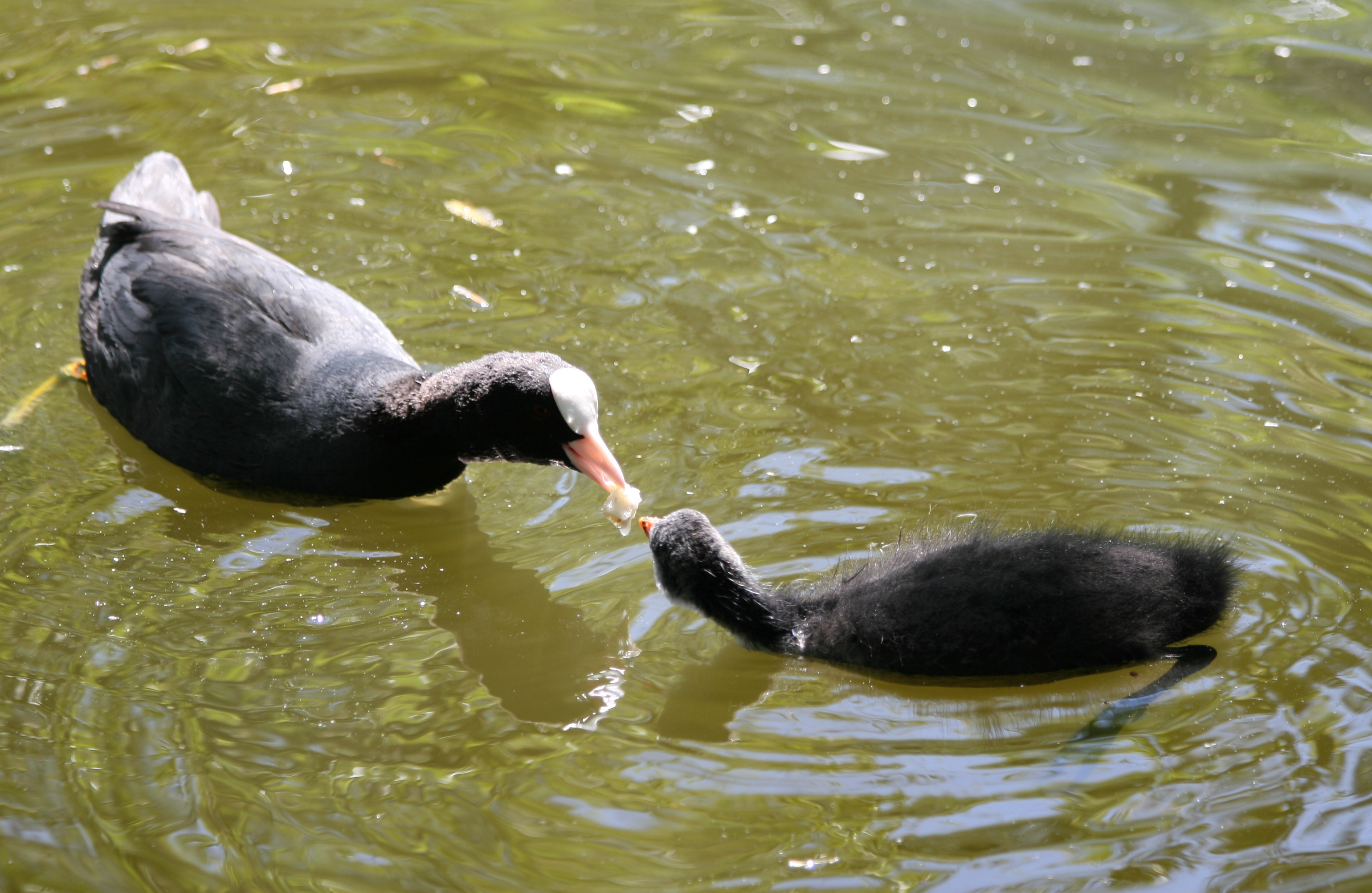 Frederiksberg Have, Copenhagen, Denmark. Fulica atra feeding bread to its chick.